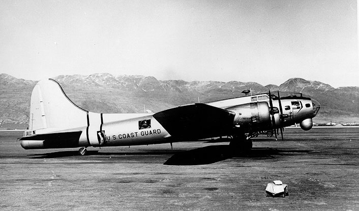 U.S. Coast Guard PB-1G stationed at Kodiak, Alaska, late 1940s.